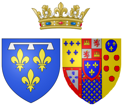 Coat of arms of Marie Amélie, Princess of Naples and Sicily as Duchess of Orléans, princess of the blood